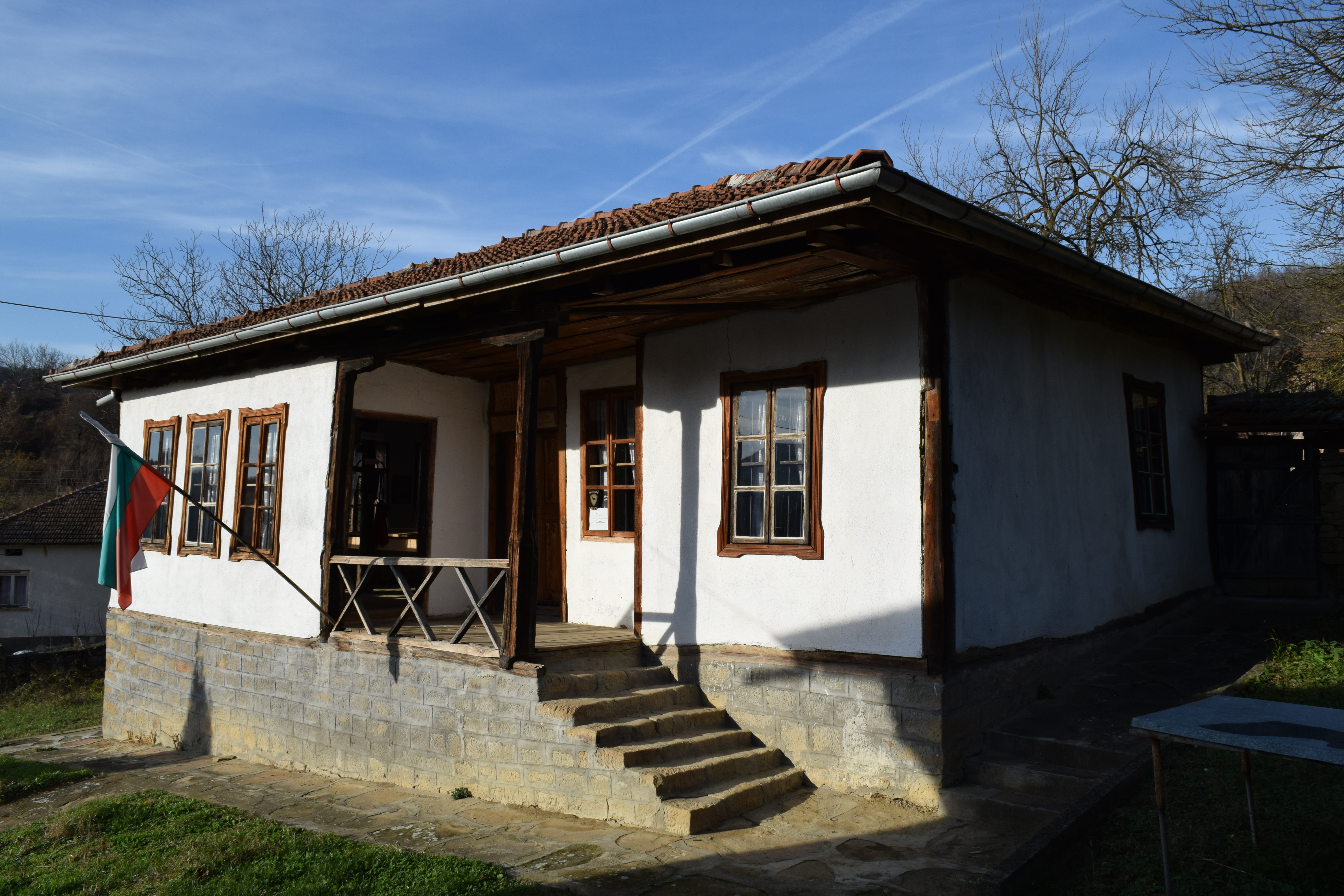 The former monastery school in Bozhenitsa, Bulgaria, nowadays functioning as a museum.